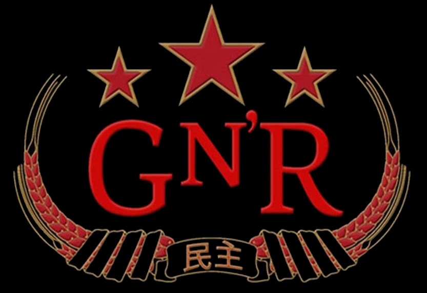 Guns N' Roses logo used during the "Chinese Democracy" era